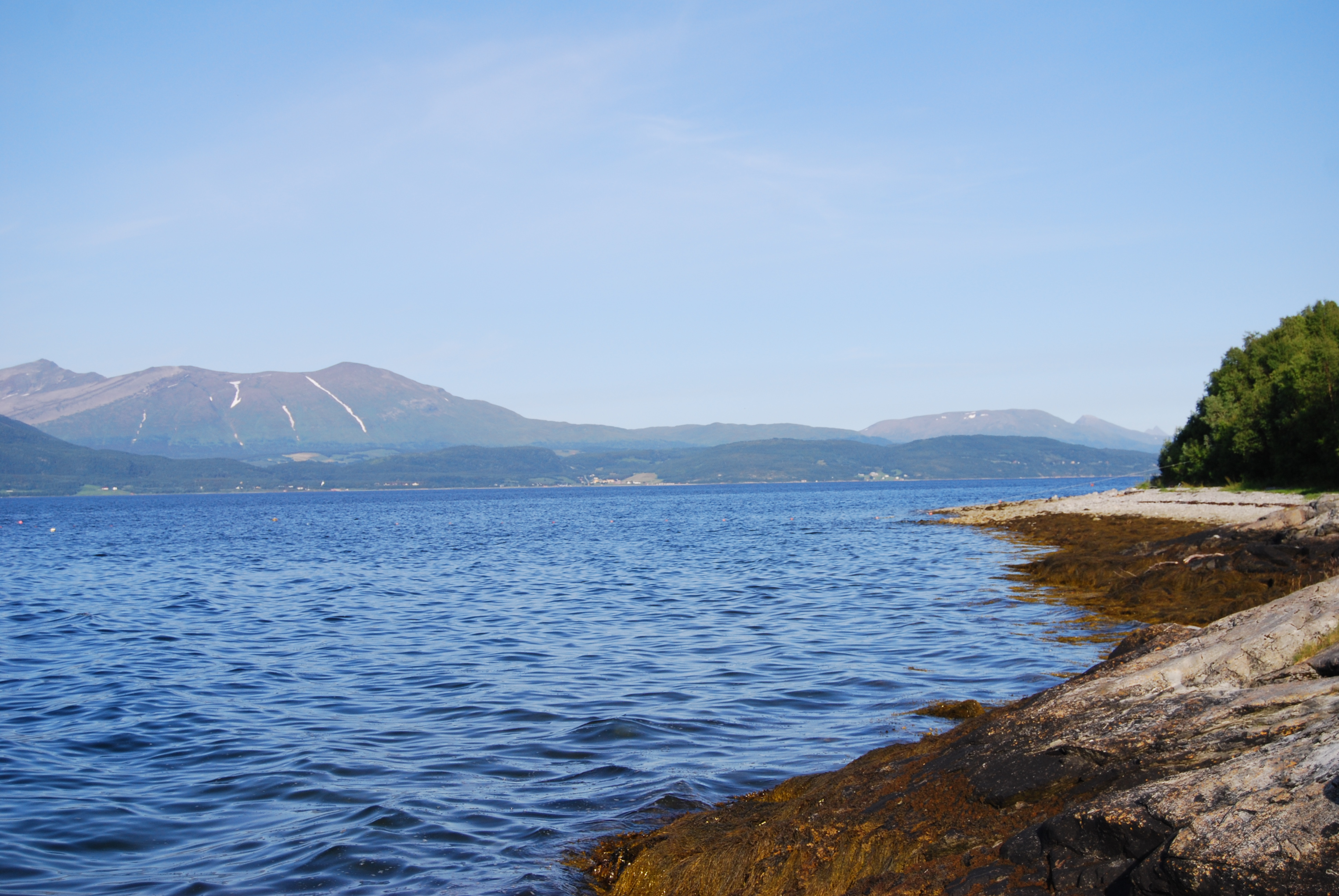 Malangen fjord, Norway. View east from near Rossfjord Church.